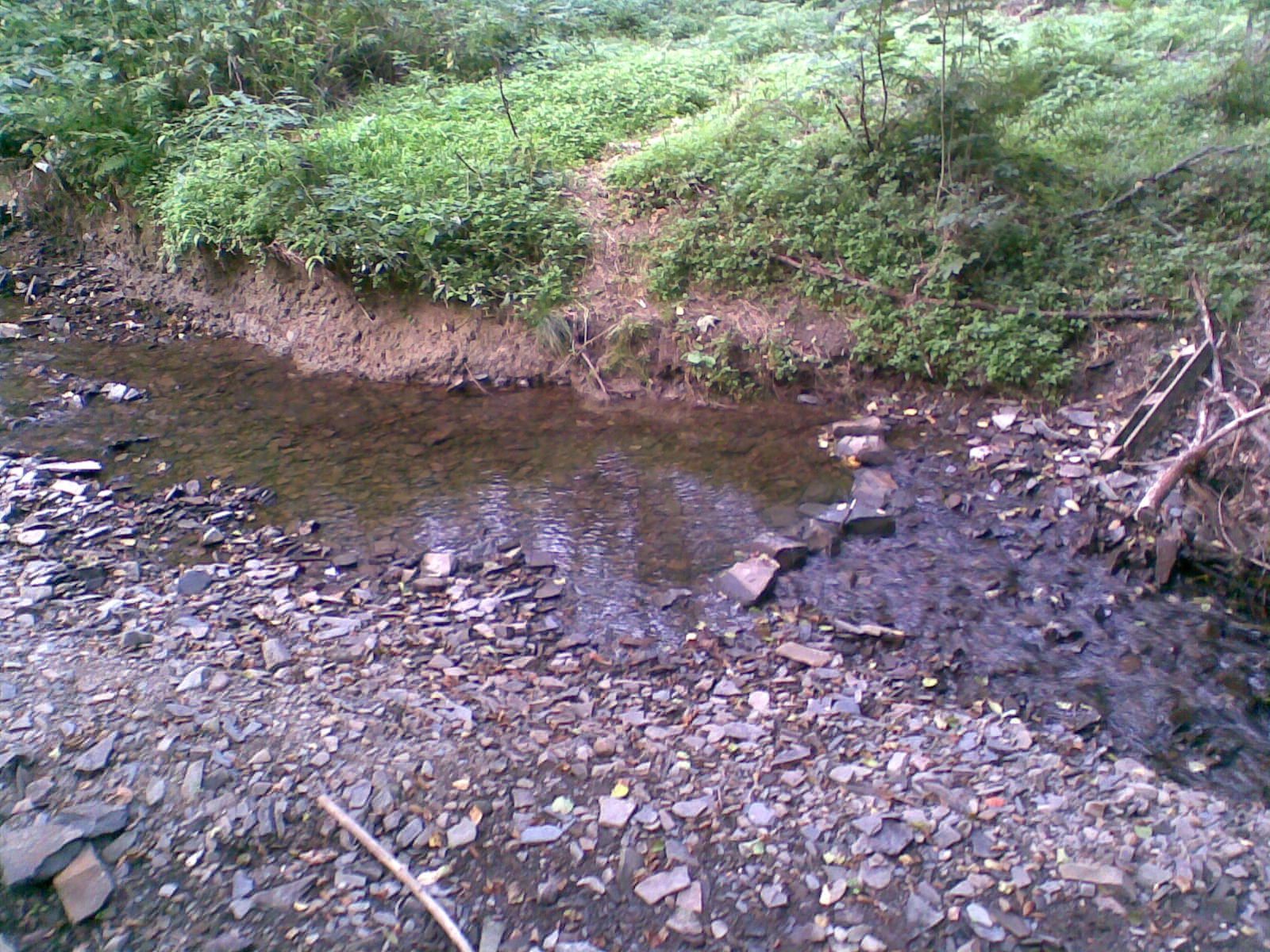 Stream Setina in The Valley of Setina near the village Pusta Polom